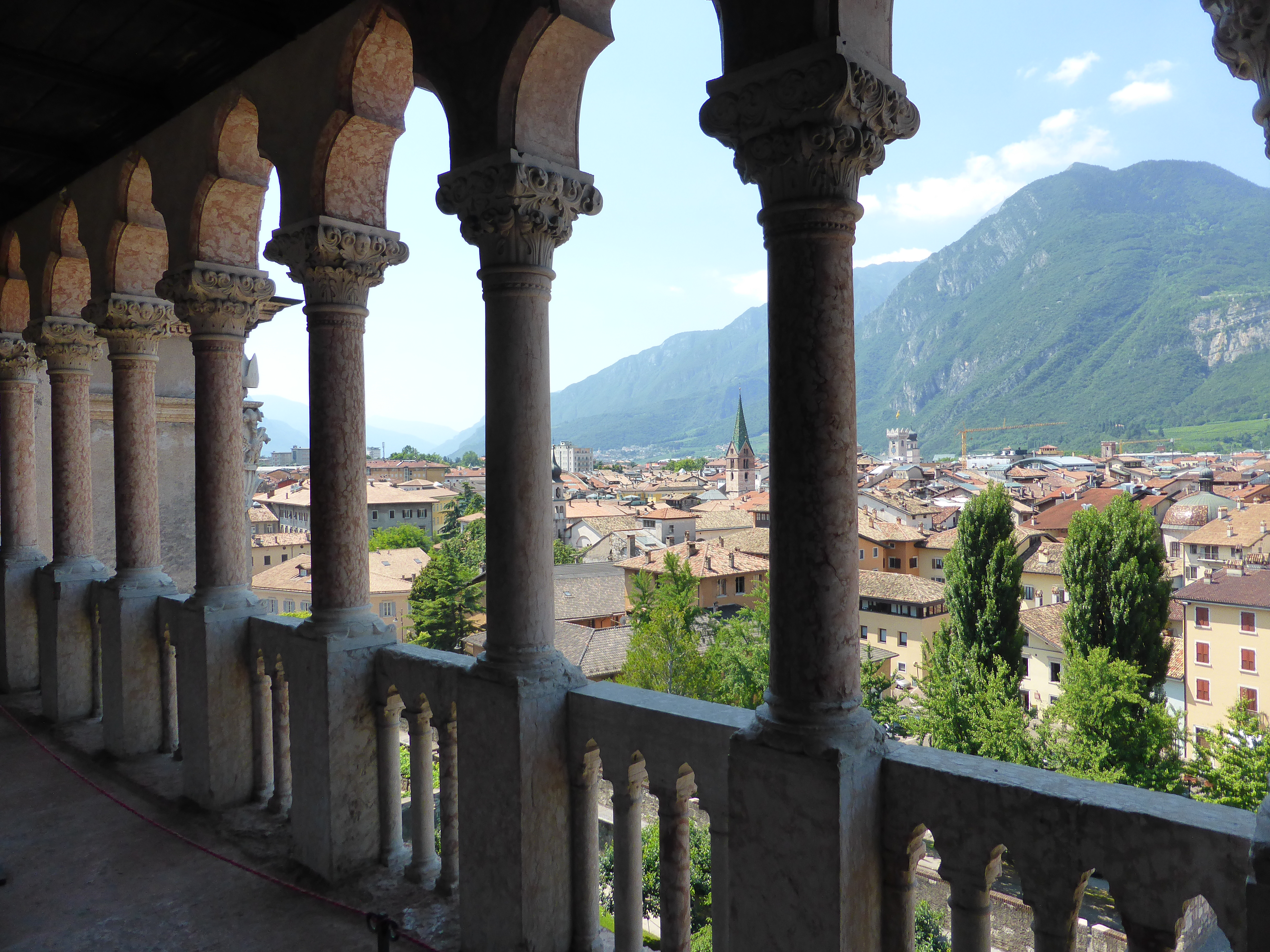 A view of Trento from the Venetian Loggia in Buonconsiglio castle.